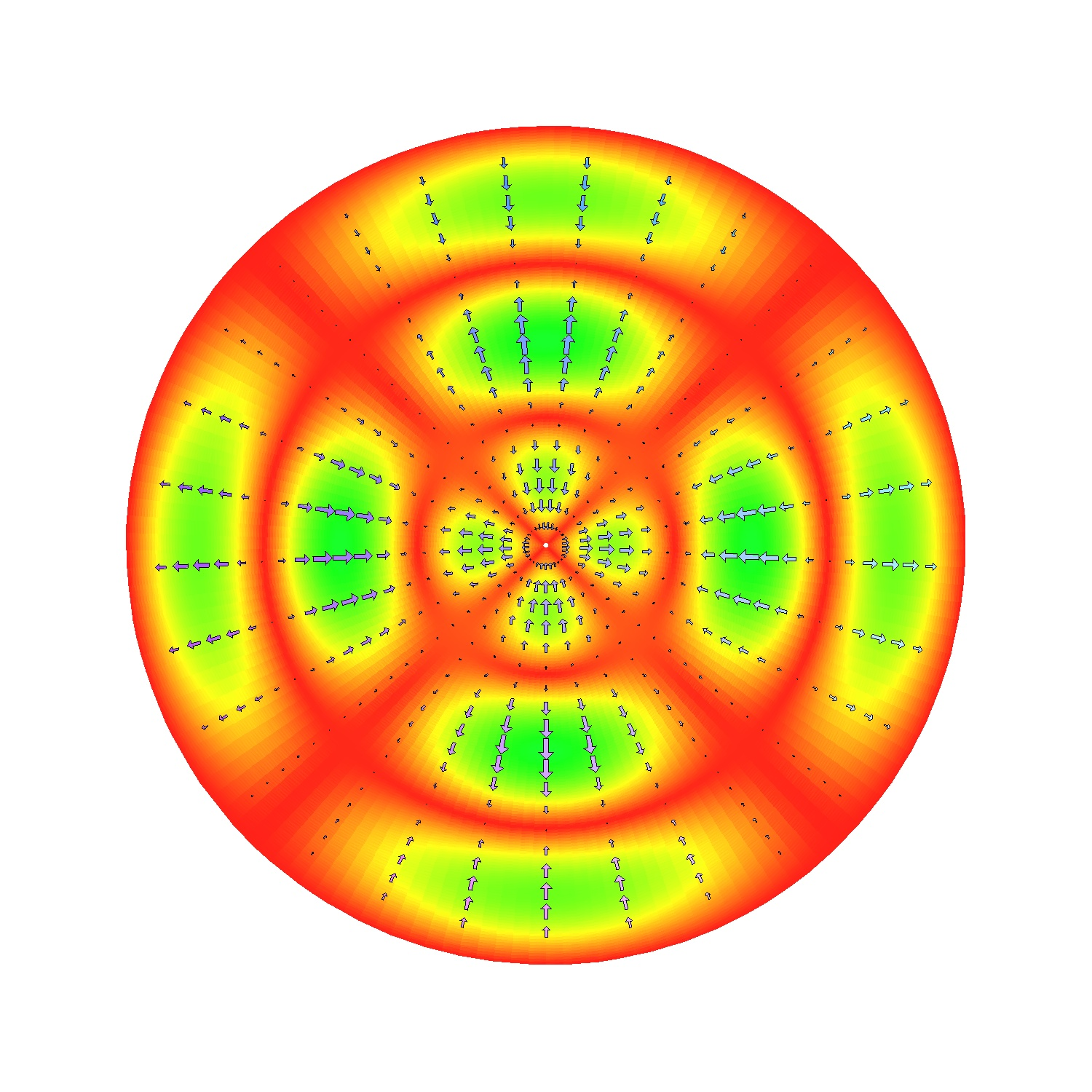 Plot of E and H fields on the TEnl mode defined by n and l.